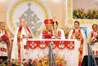 Kunjachan_blessed_ceremony